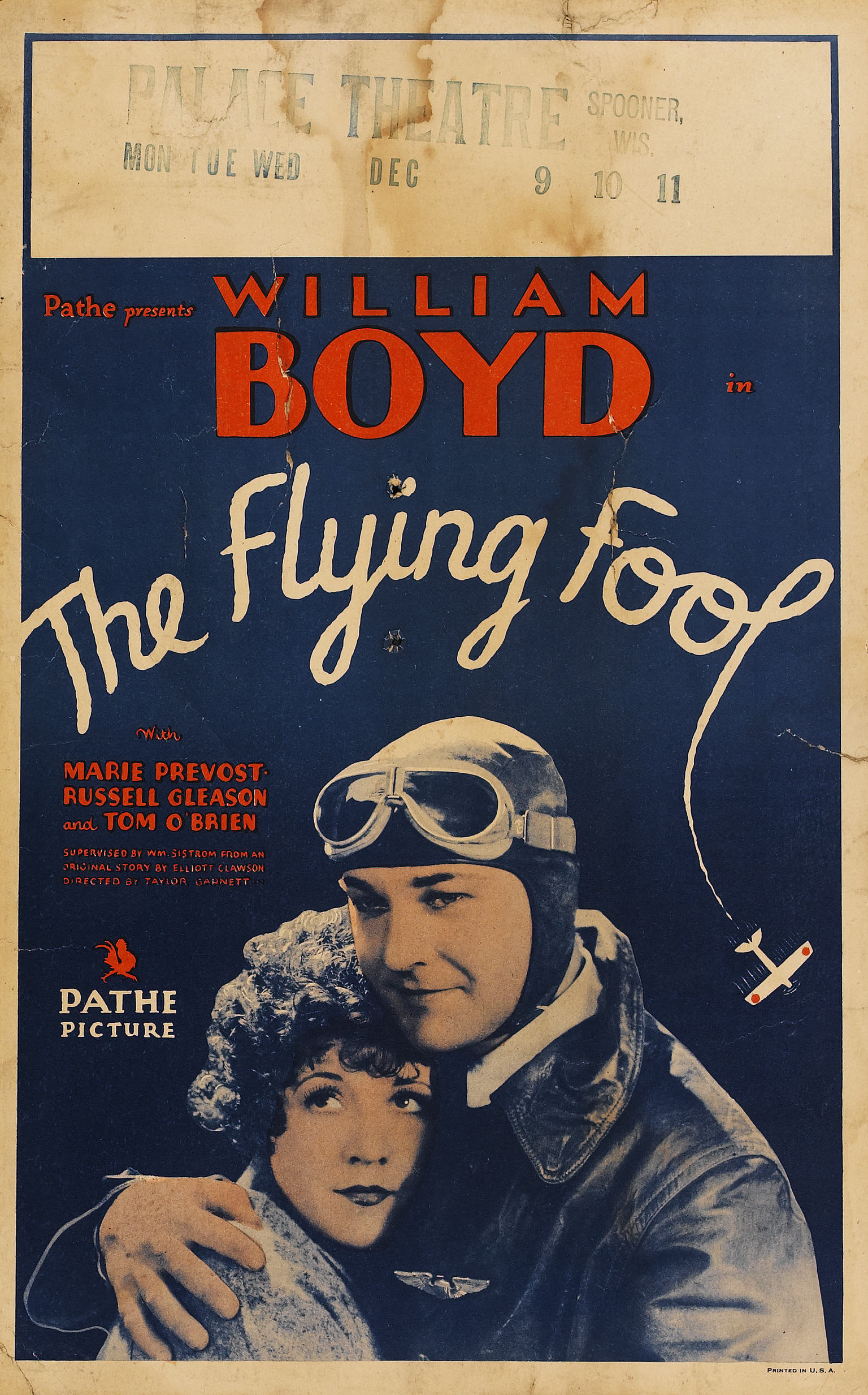 The Flying Fool is a 1929 sound aviation picture produced and distributed by Pathé Exchange. This was published with no copyright notice.